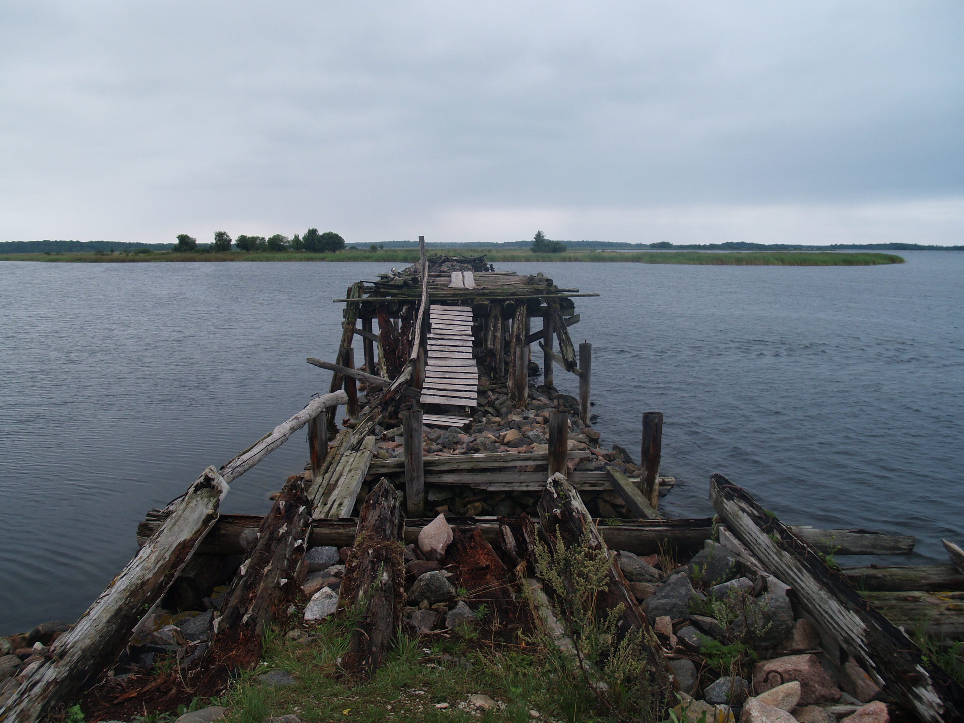 Bridge between Suur-Pakri and Väike-Pakri. Very early morning.